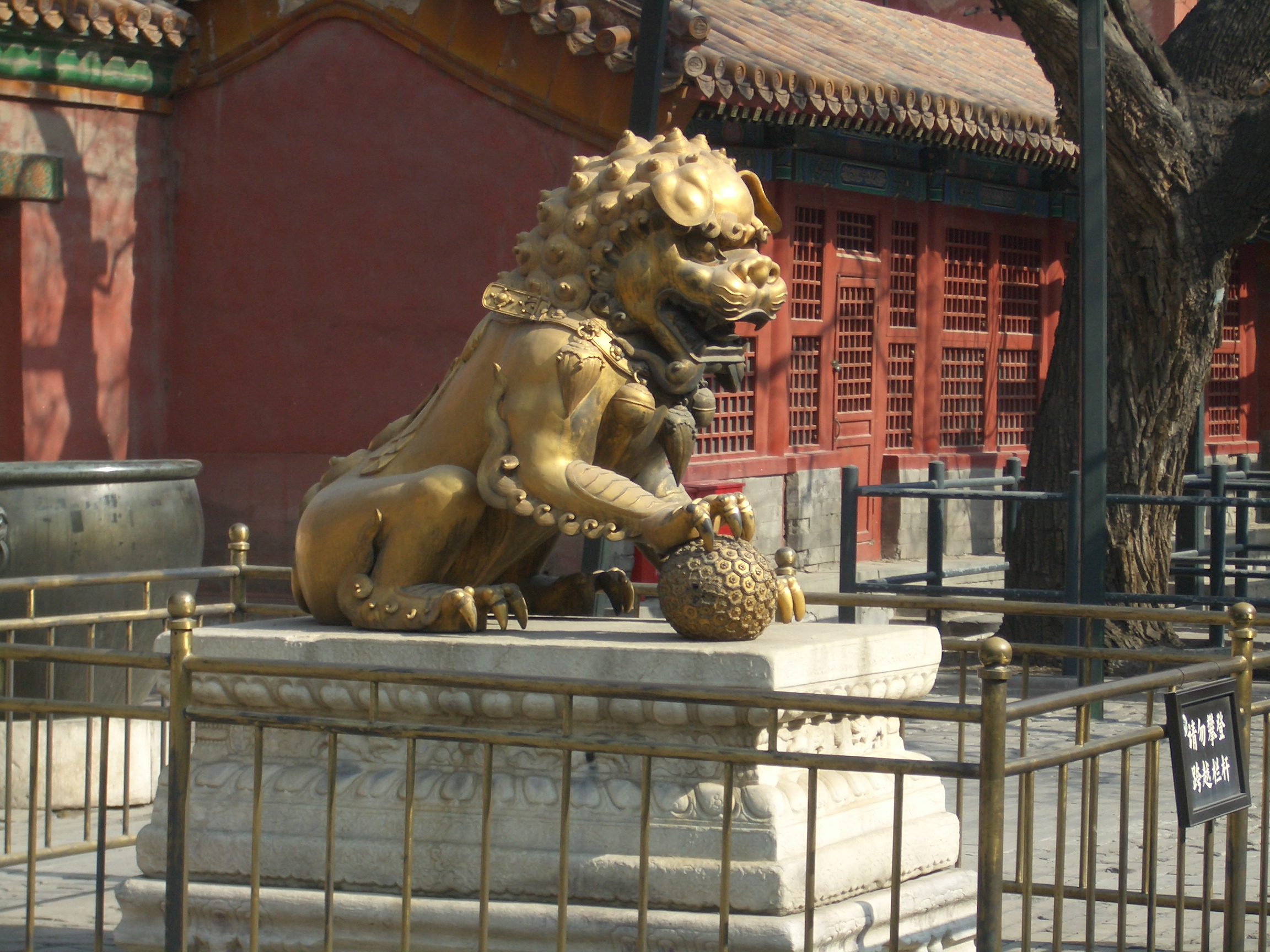 Forbidden City, Beijing, China